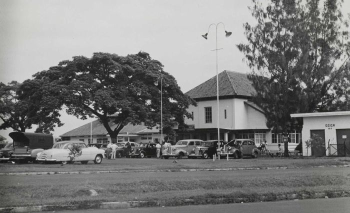 Parked cars in front of the passenger terminal building of Garuda Indonesian Airways and KLM